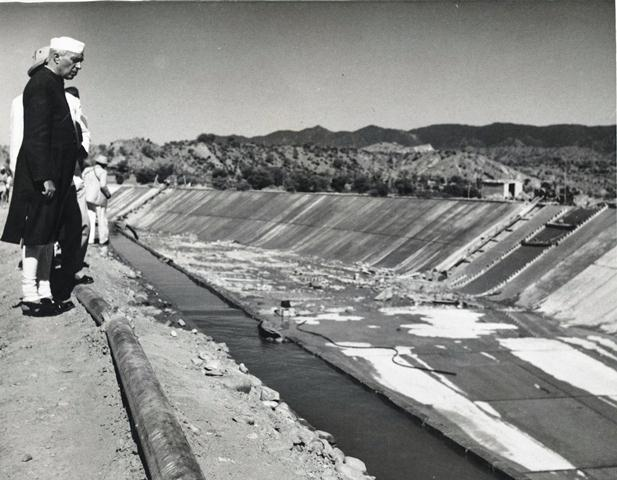 Jawaharlal Nehru inspecting the Nangal Hydel Canal, 8 November 1953